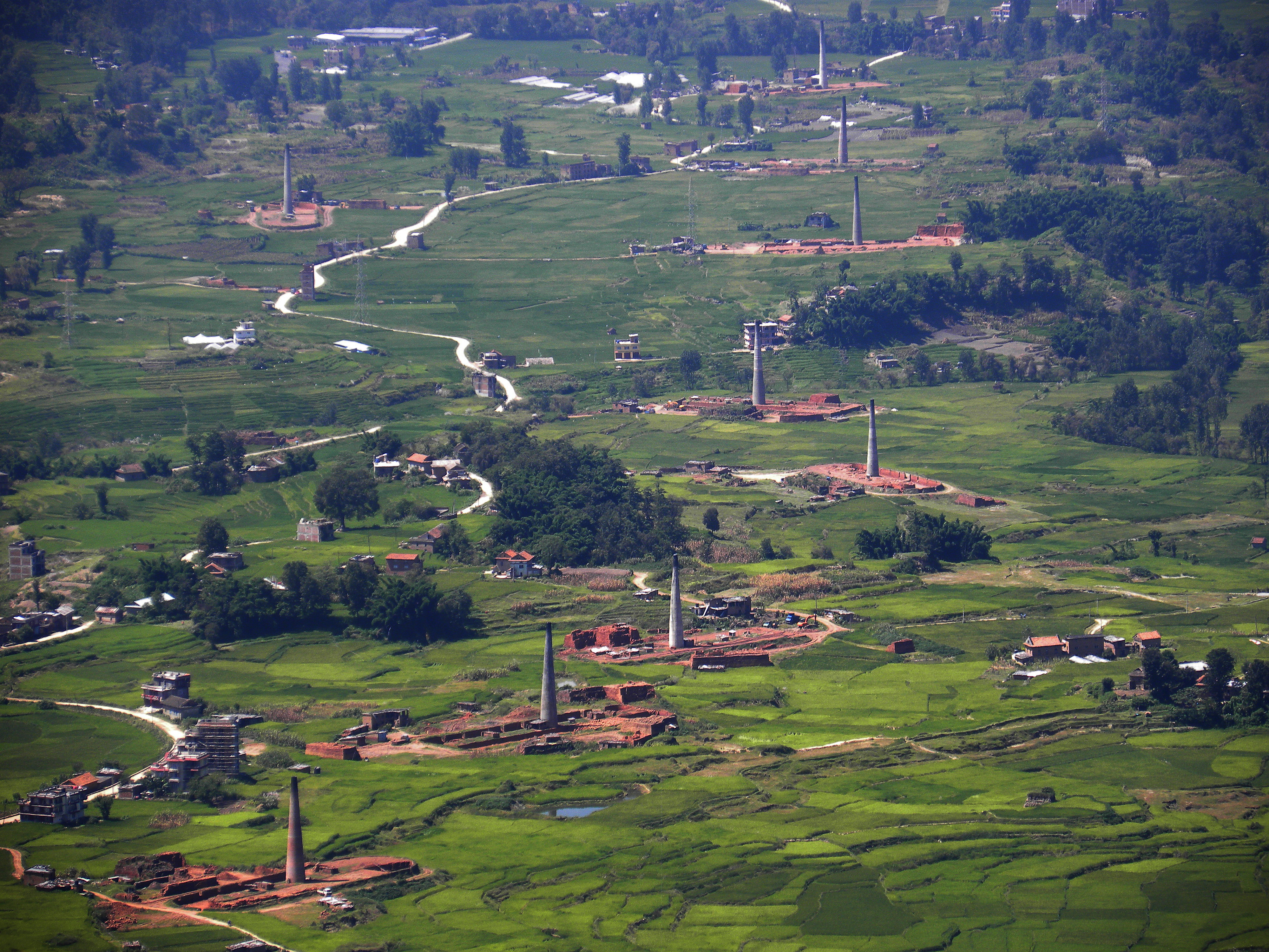 Bhaktapur district alone has more than 50 brick factories in the Kathmandu Valley